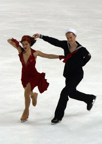 Emily_SAMUELSON_Evan_BATES from 2008_Skate_America OD - Rhythms of the 1920s, 1930s, and 1940s